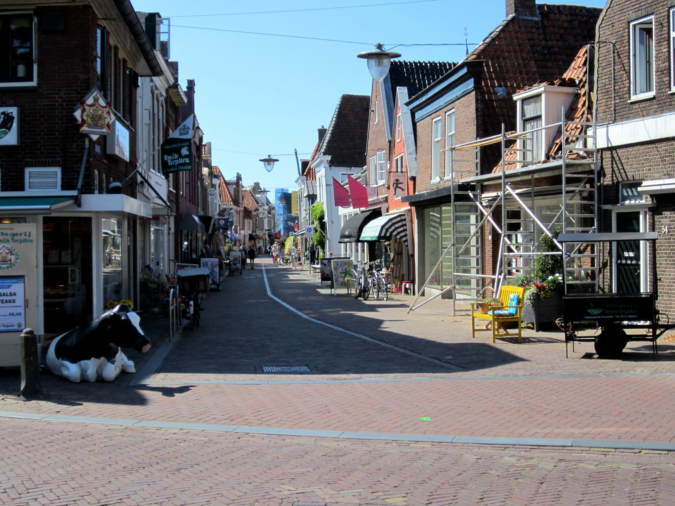 Dijkstraat (Frisian: Dykstrjitte), a street in Franeker/Frjentsjer, Friesland, the Netherlands. Looking from the east towards the west.